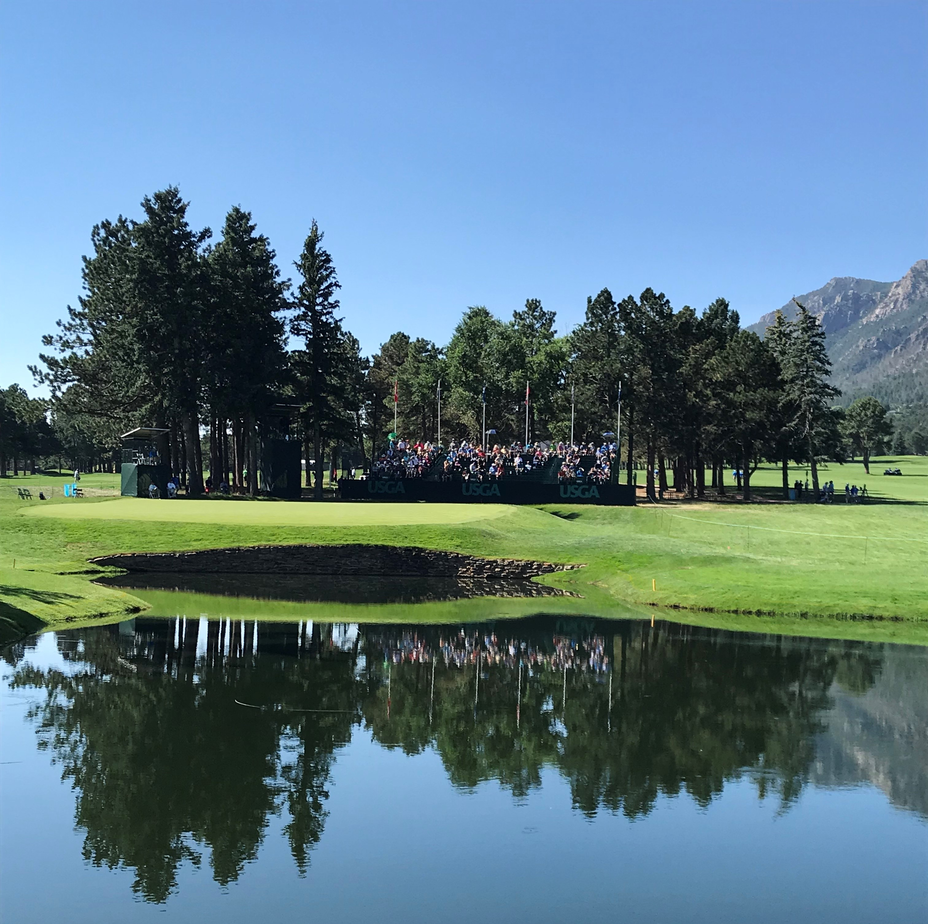 An image of the Broadmoor golf course located at the Broadmoor Hotel in Colorado Springs. The 2018 U.S. Senior Open Championship was held at the Broadmoor golf course in July. Just 30 minutes outside of Pueblo, Colorado, this course served as the backdrop for the 39th year of the tournament. The Pueblo Chemical Agent-Destruction Pilot Plant remains committed to safely destroying the chemical weapons stockpile at the U.S. Army Pueblo Chemical Depot in Pueblo, Colorado. Visit our website for more information.